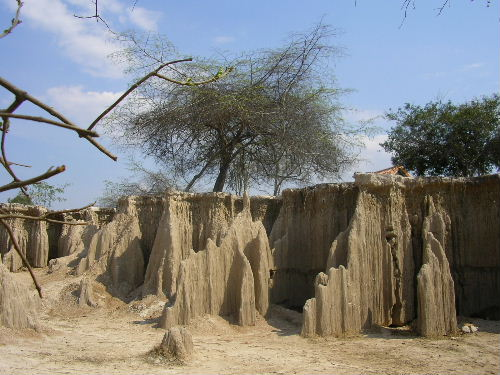 Photo taken by user Tanaporn